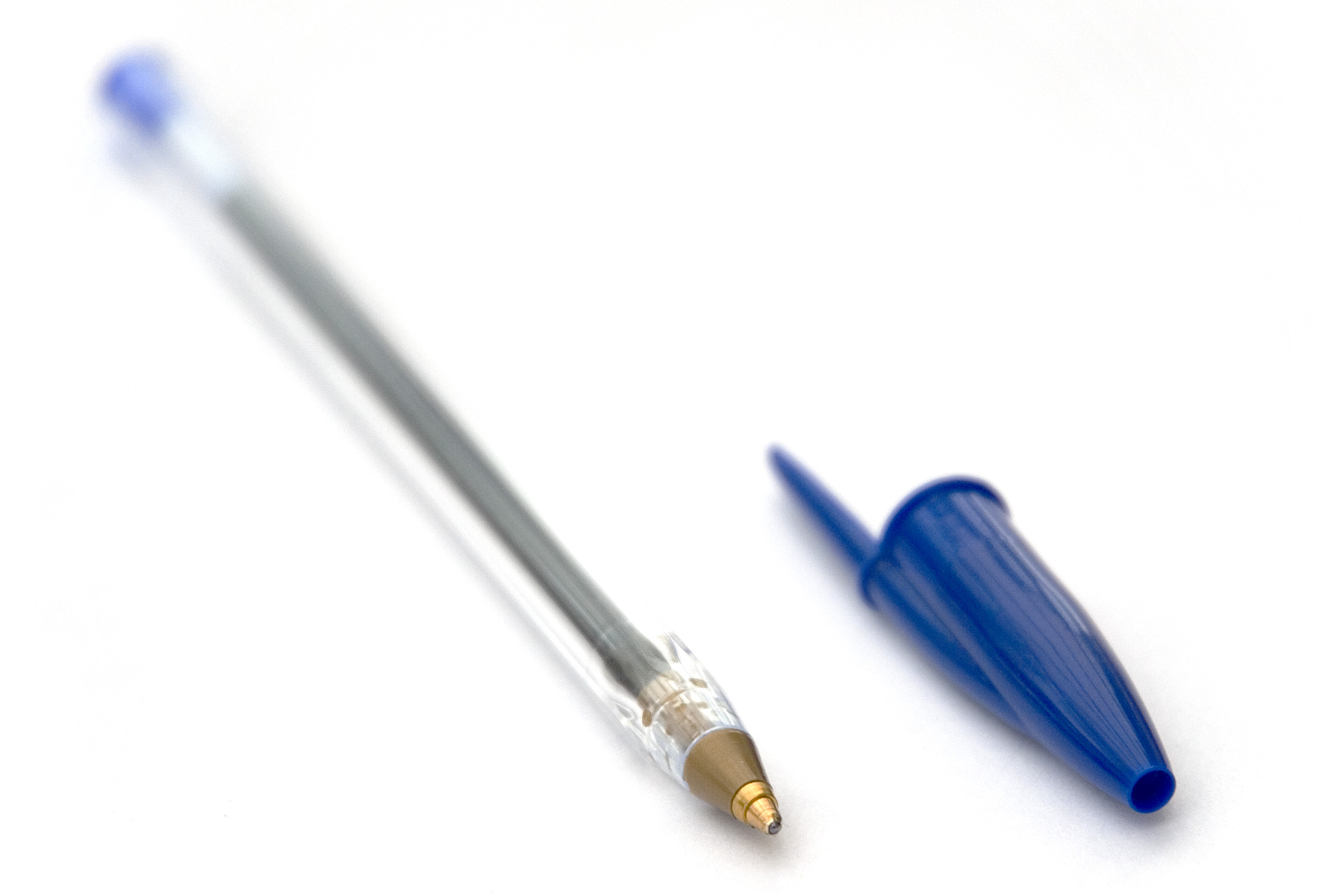 BIC cristal pen